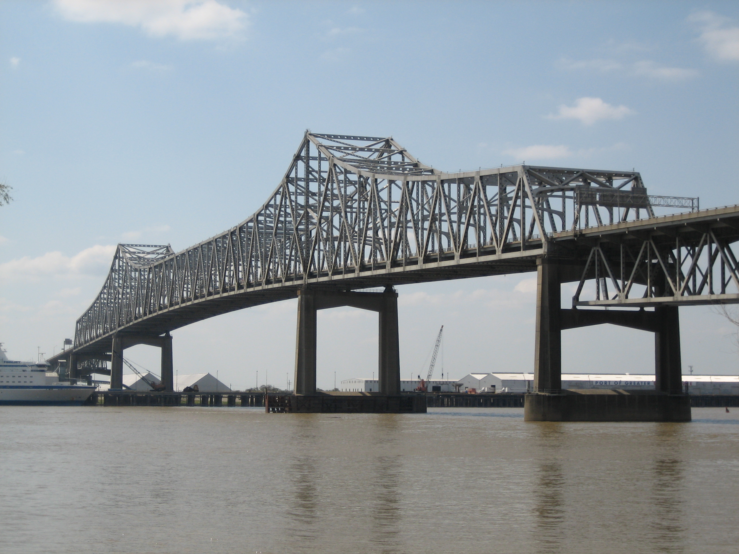 The Horace Wilkinson Bridge in Baton Rouge, Louisiana from the southeast, from the east bank of the Mississippi River. Taken by me, User:Christopherlin, 2006-04-01.